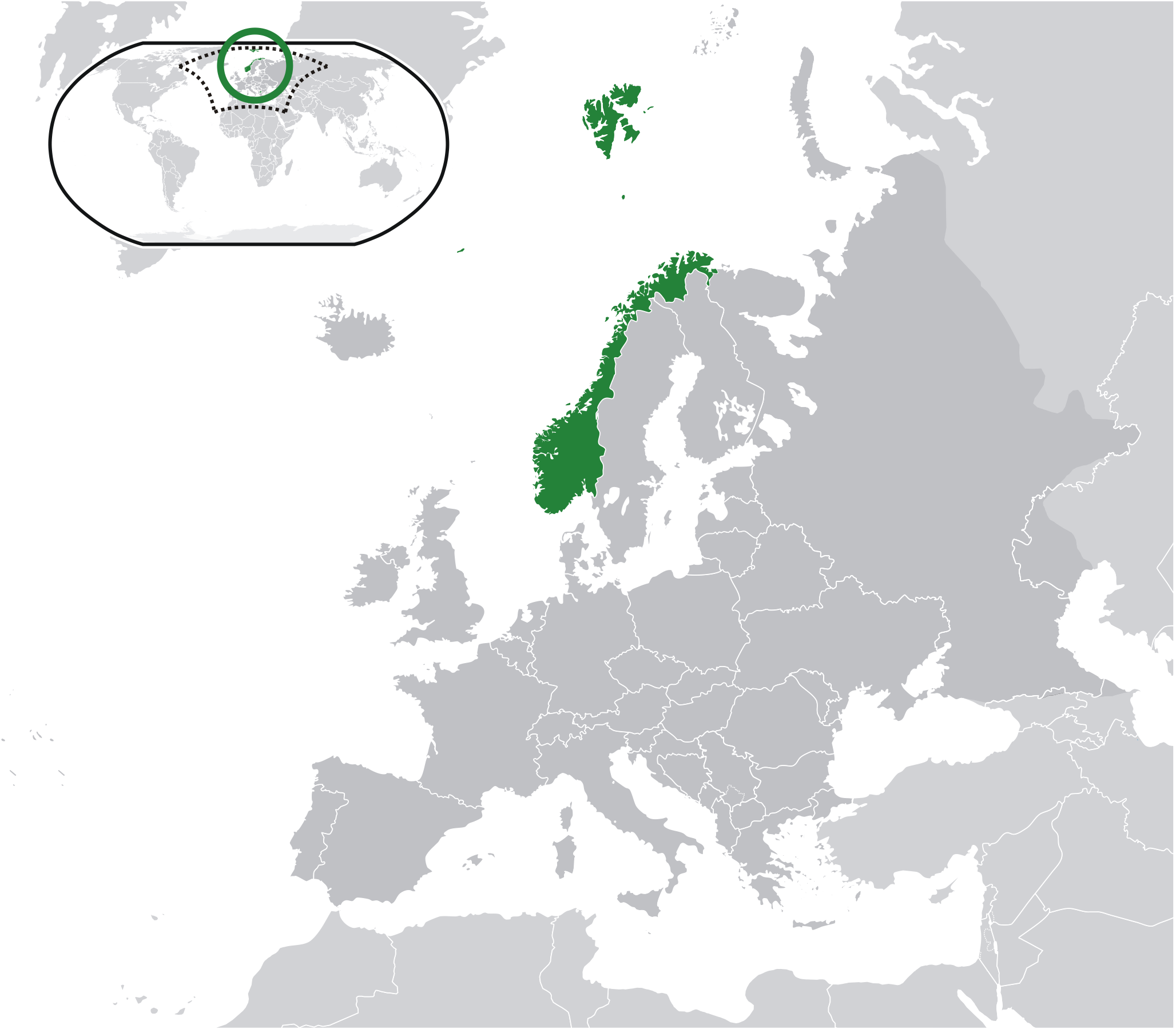 Norway (green): inspired by and consistent with general country locator maps by User:Vardion, et al; includes all of Svalbard